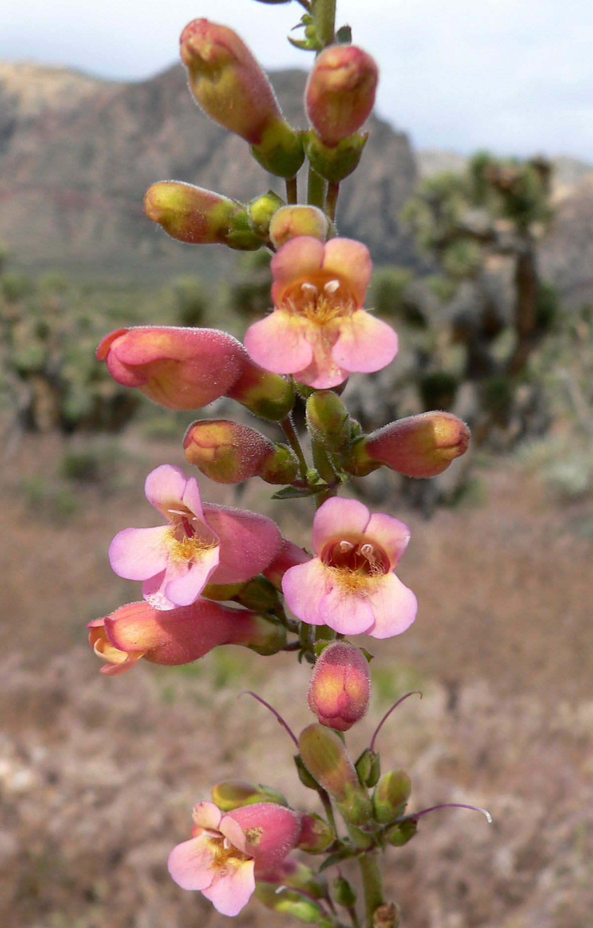 Penstemon bicolor subsp. roseus in the southern end of Red Rock Canyon near Blue Diamond, Nevada